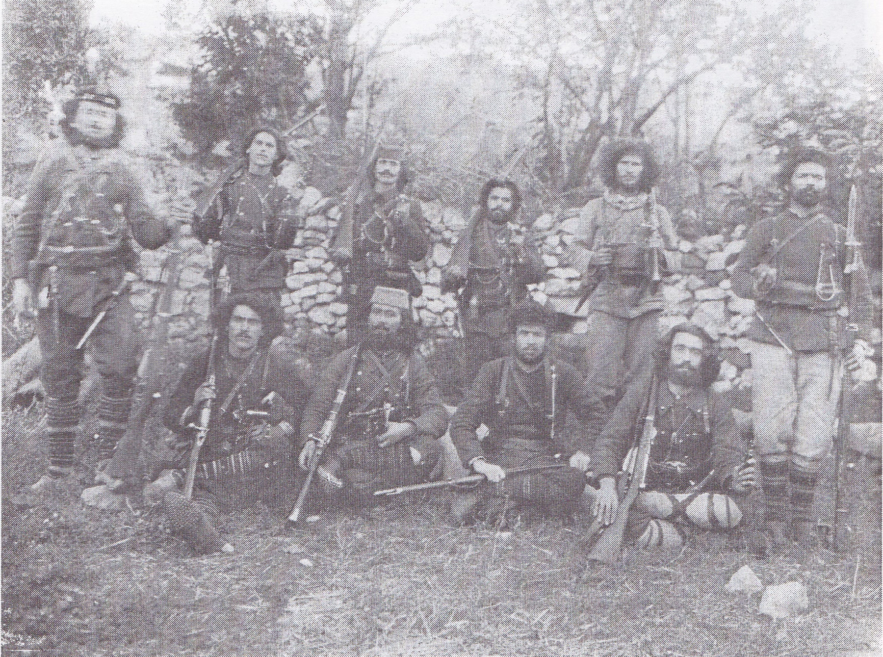 bulgarian revolutionary/ies